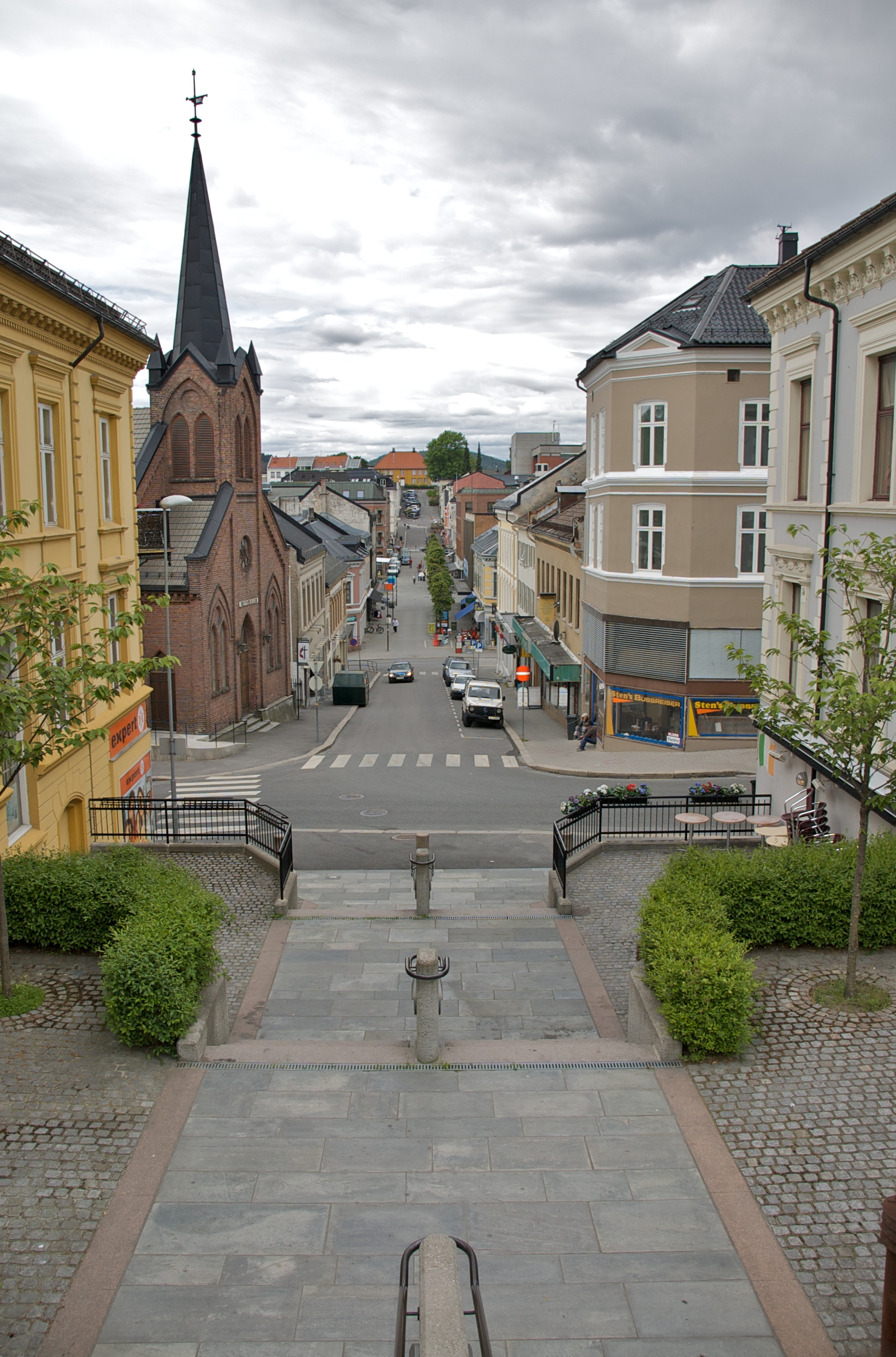 Telemarksgata in Skien. The street originates back to year 1150.[1]